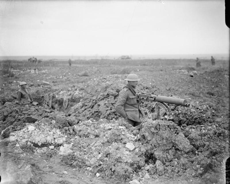 A British machine gun post in a captured trench at Feuchy during the Battle of Arras, France.